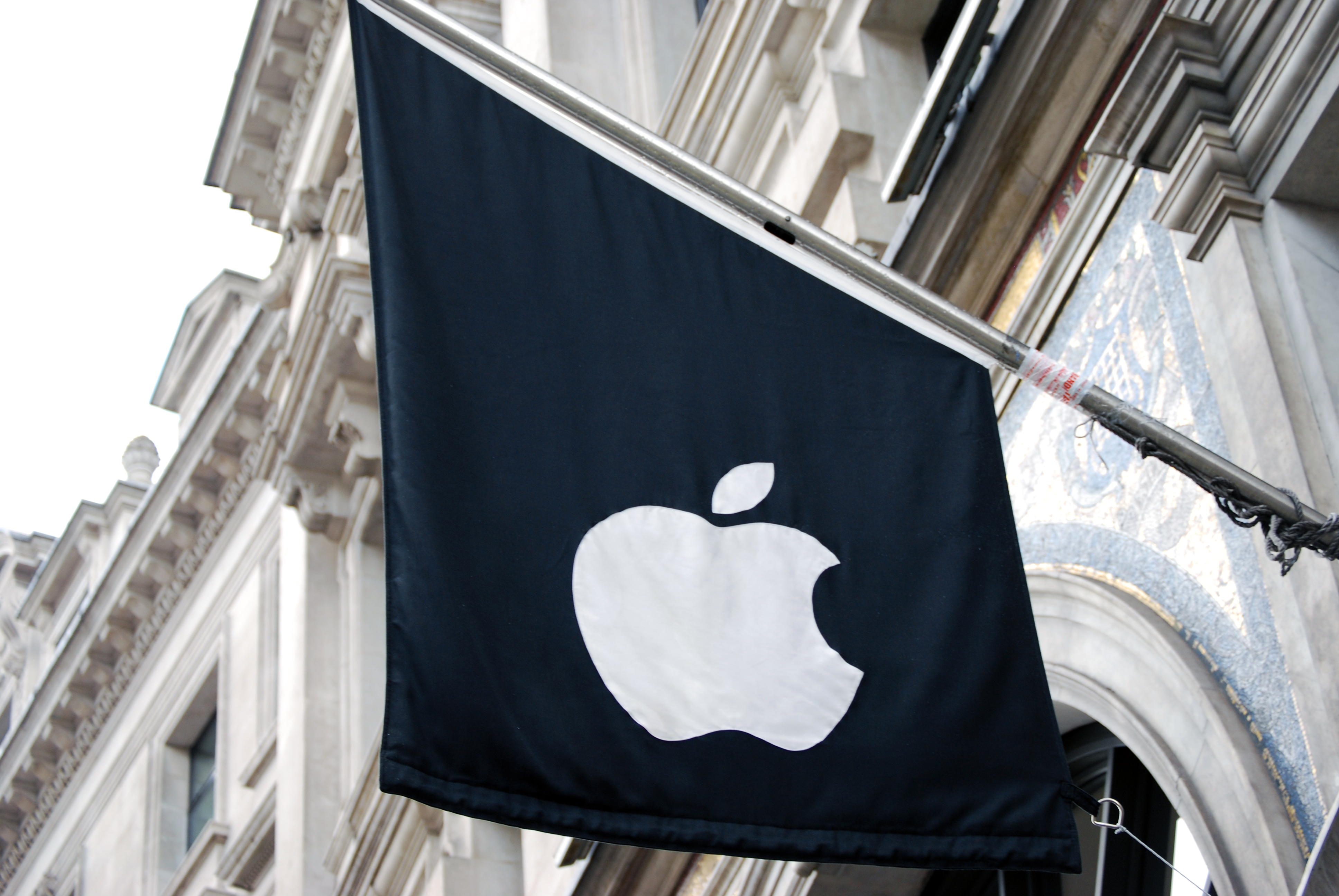 Apple Store, Regent Street, London - flag